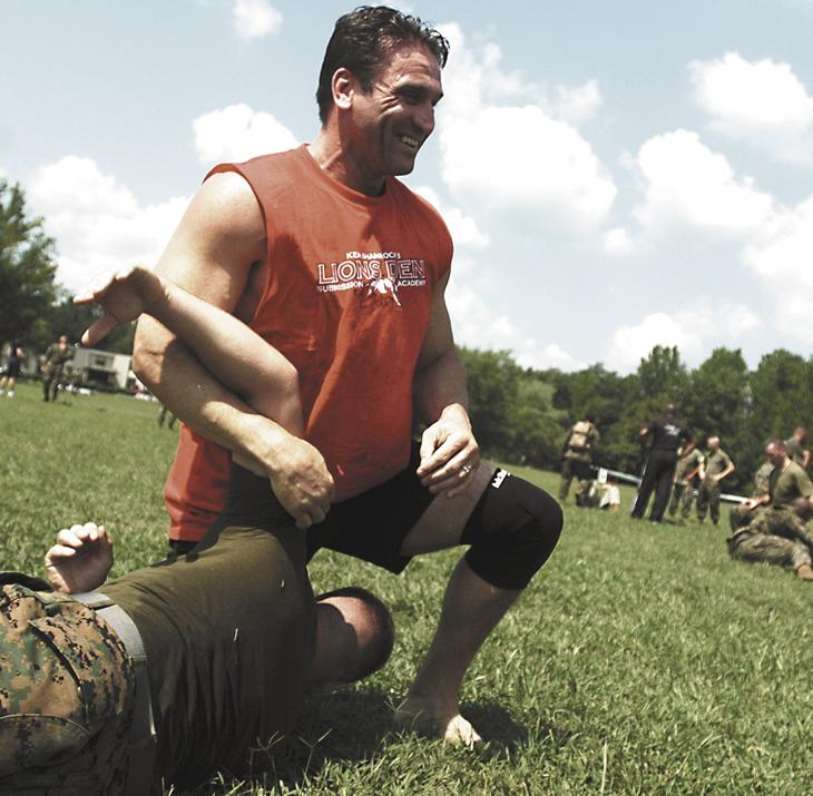 Ken Shamrock, world champion mixed martial artist, during a clinic Aug. 17